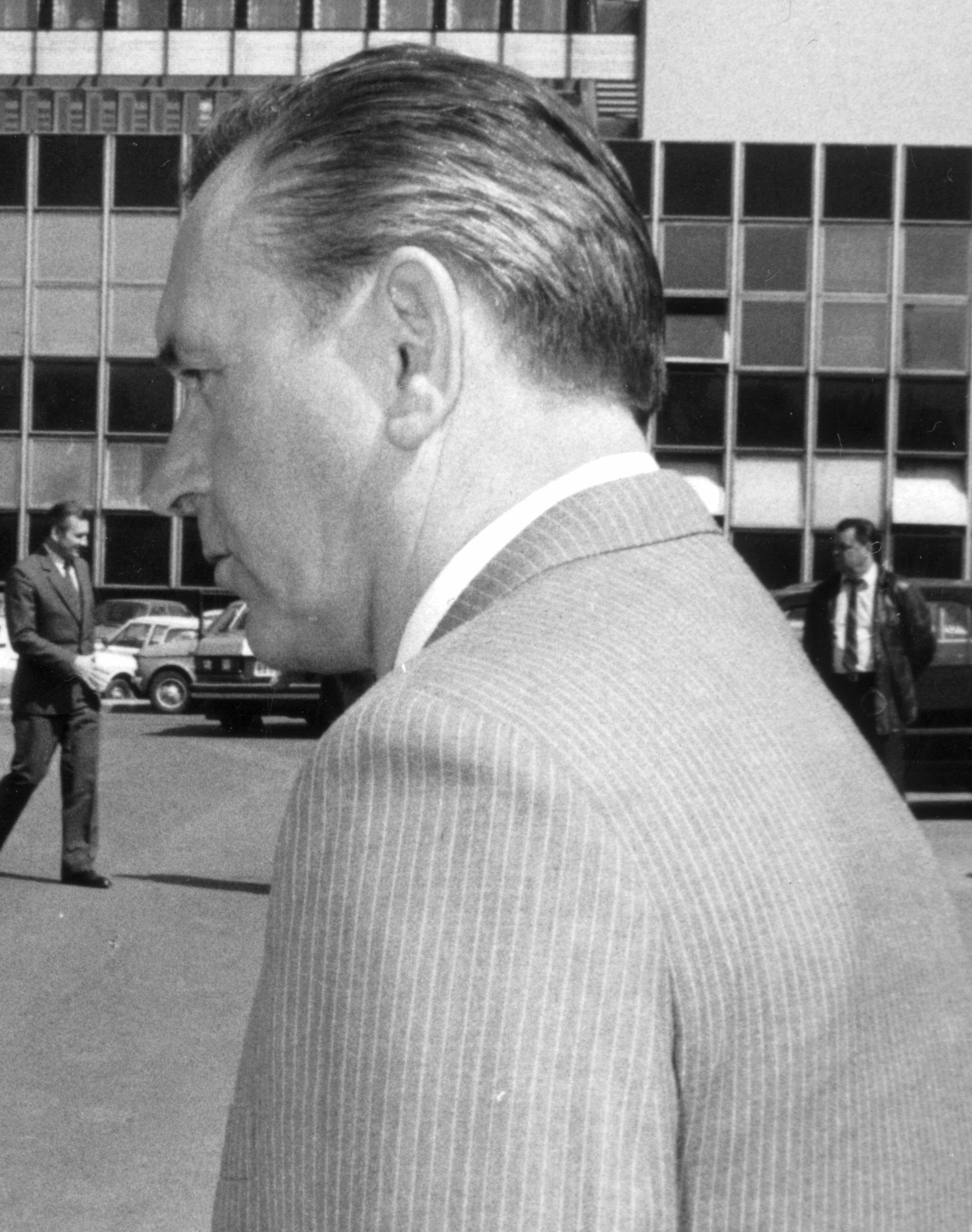 Károly Grósz in 1986.